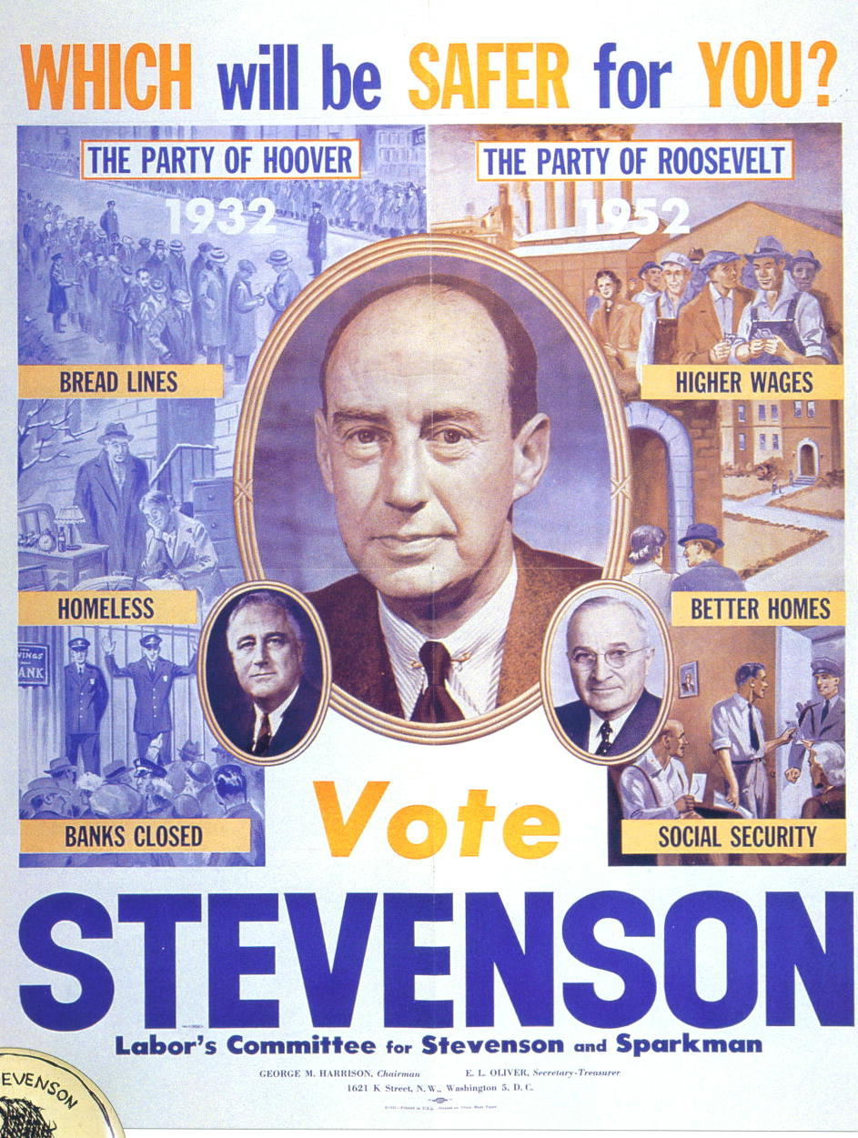 Democratic party poster 1952 for Adlai Stevenson. never copyrighted; no (c) symbol